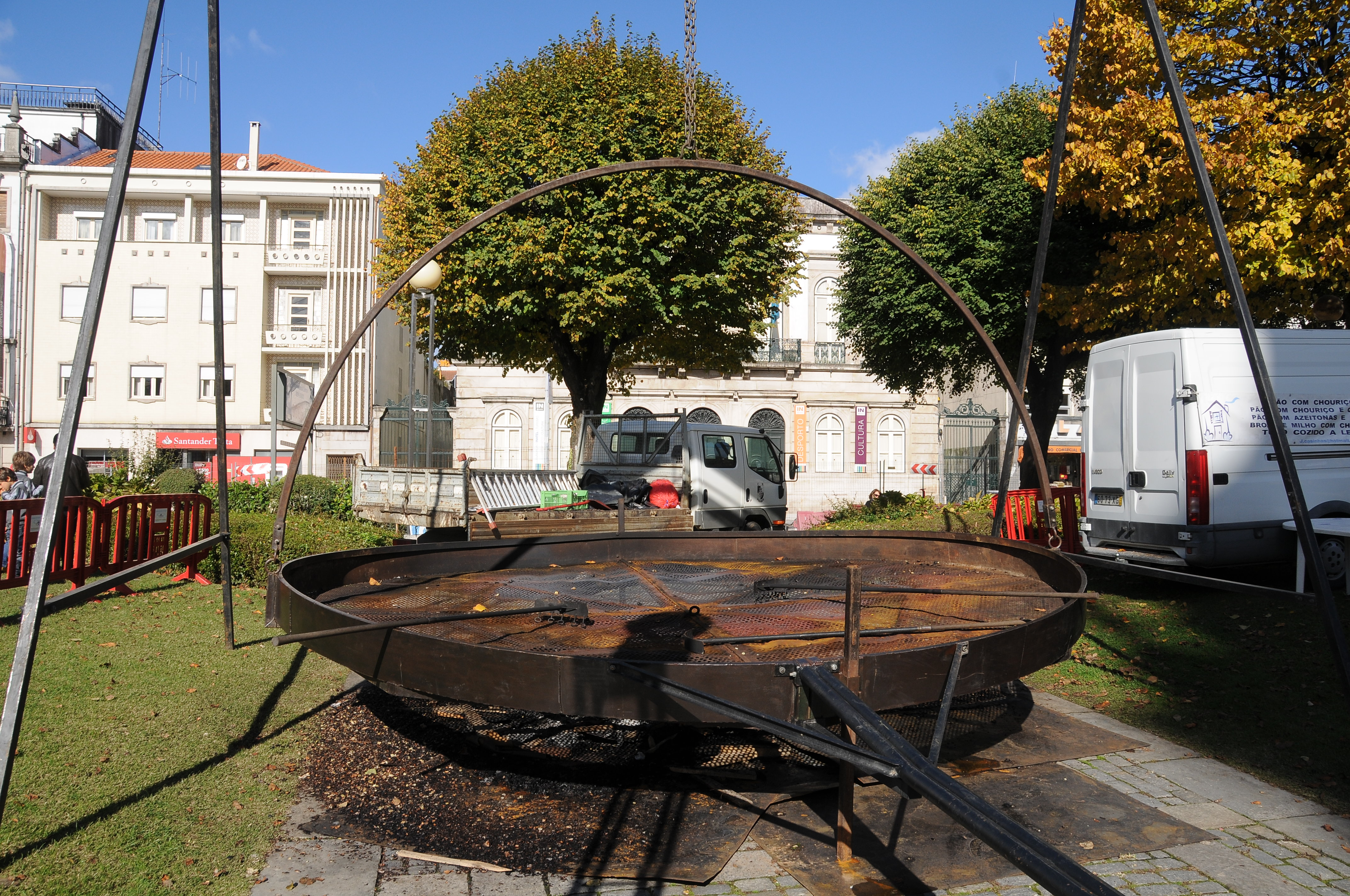 The biggest chestnut roaster in the world (Guinness World Records) in Braga, Portugal.